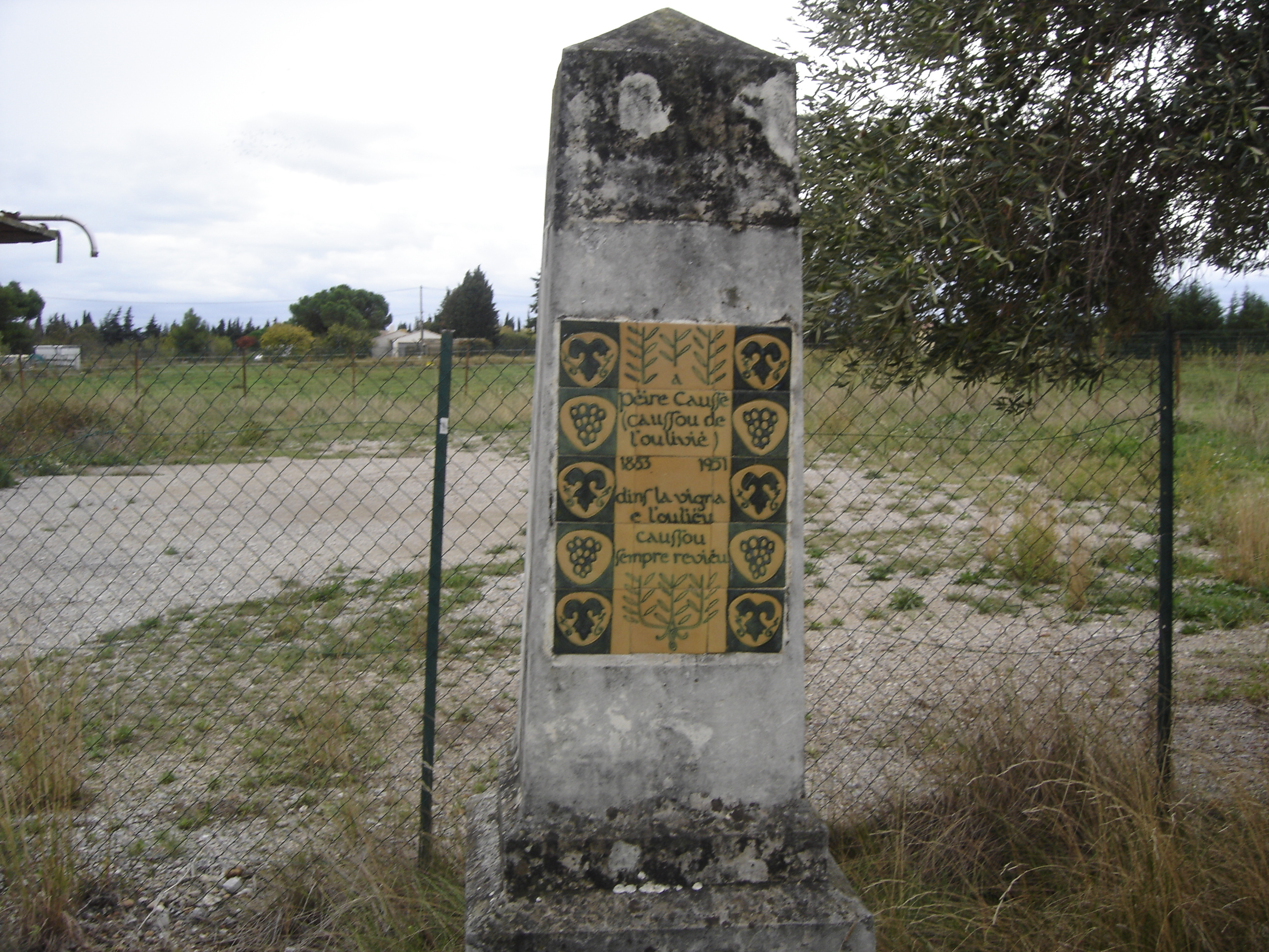 Small monument paying tribute to the felibre Pèire Causse (Vauguièiras, Languedoc)